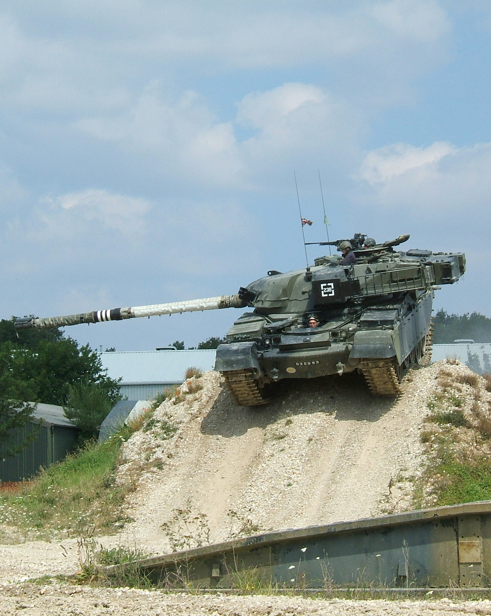 Chieftain Main Battle Tank taking part in Bovington Tank Museum's 'Tanks In Action' display.